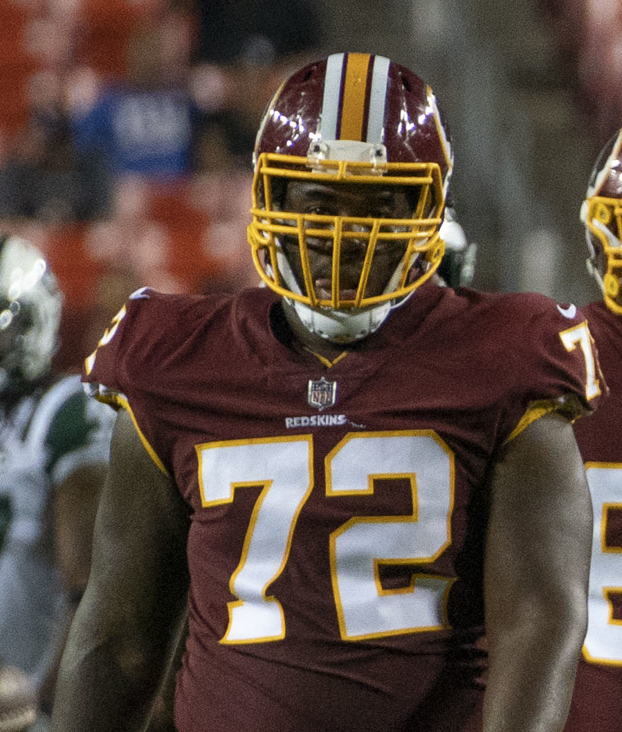 Washington Redskins offensive lineman (from left to right), Geron Christian (#72), Isaiah Williams (#60), Tony Bergstrom (#66), Kyle Kalis (#67), and John Kling (#63), playing in preseason game with the New York Jets on August 16, 2018.